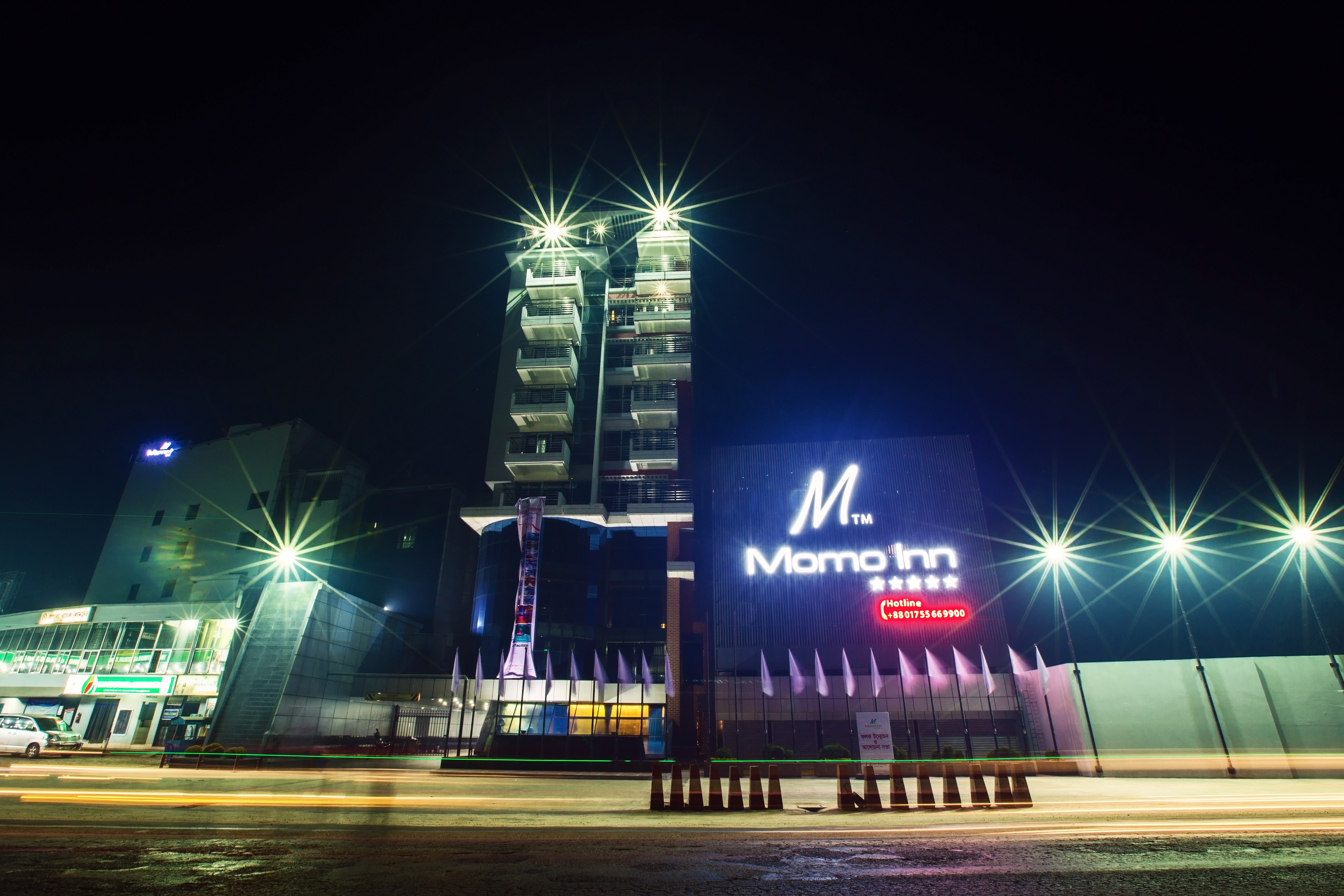 Hotel Momo Inn, Bogra